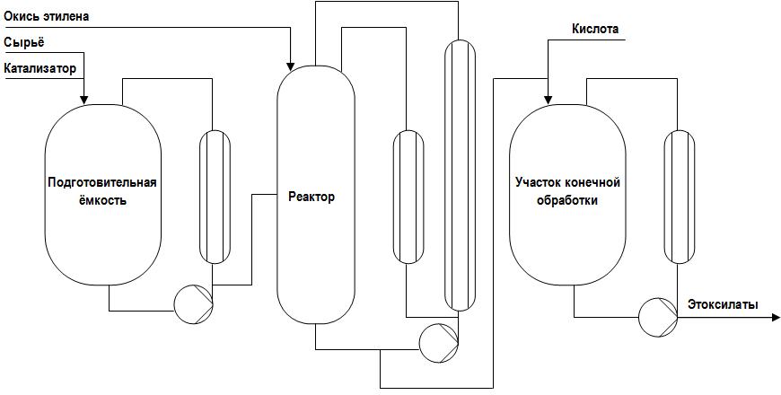 Alkoxylation process by Buss ChemTech AG